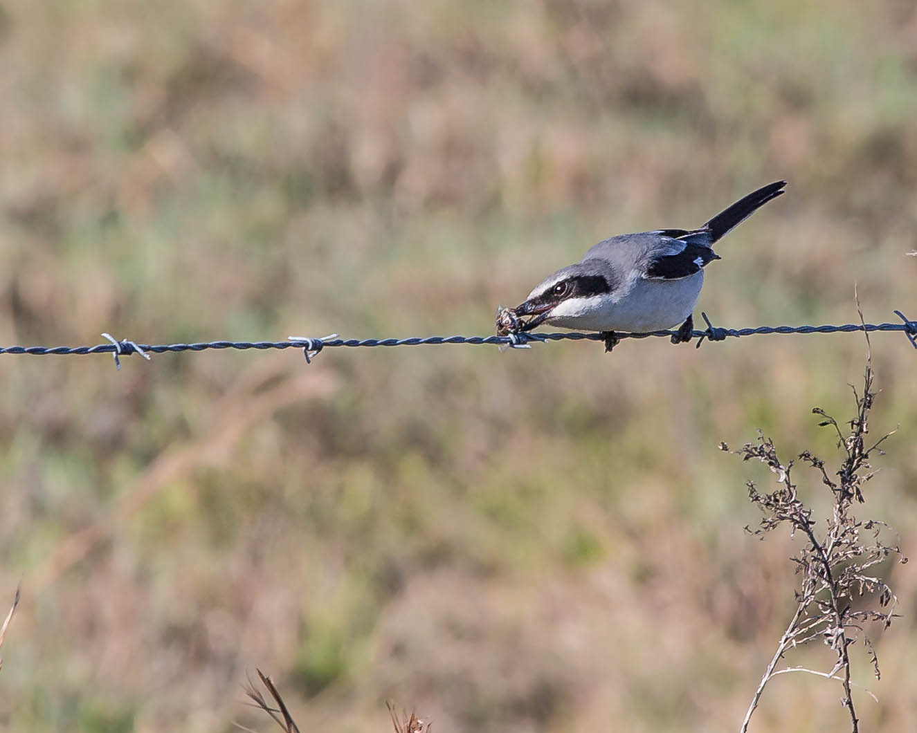 The Loggerhead Shrike is also known as a butcher bird because it impales its prey on spikes in trees or on barbed-wire fences, creating a larder! Here is a shrike impaling a large insect on a spike on a barbed-wire fence.